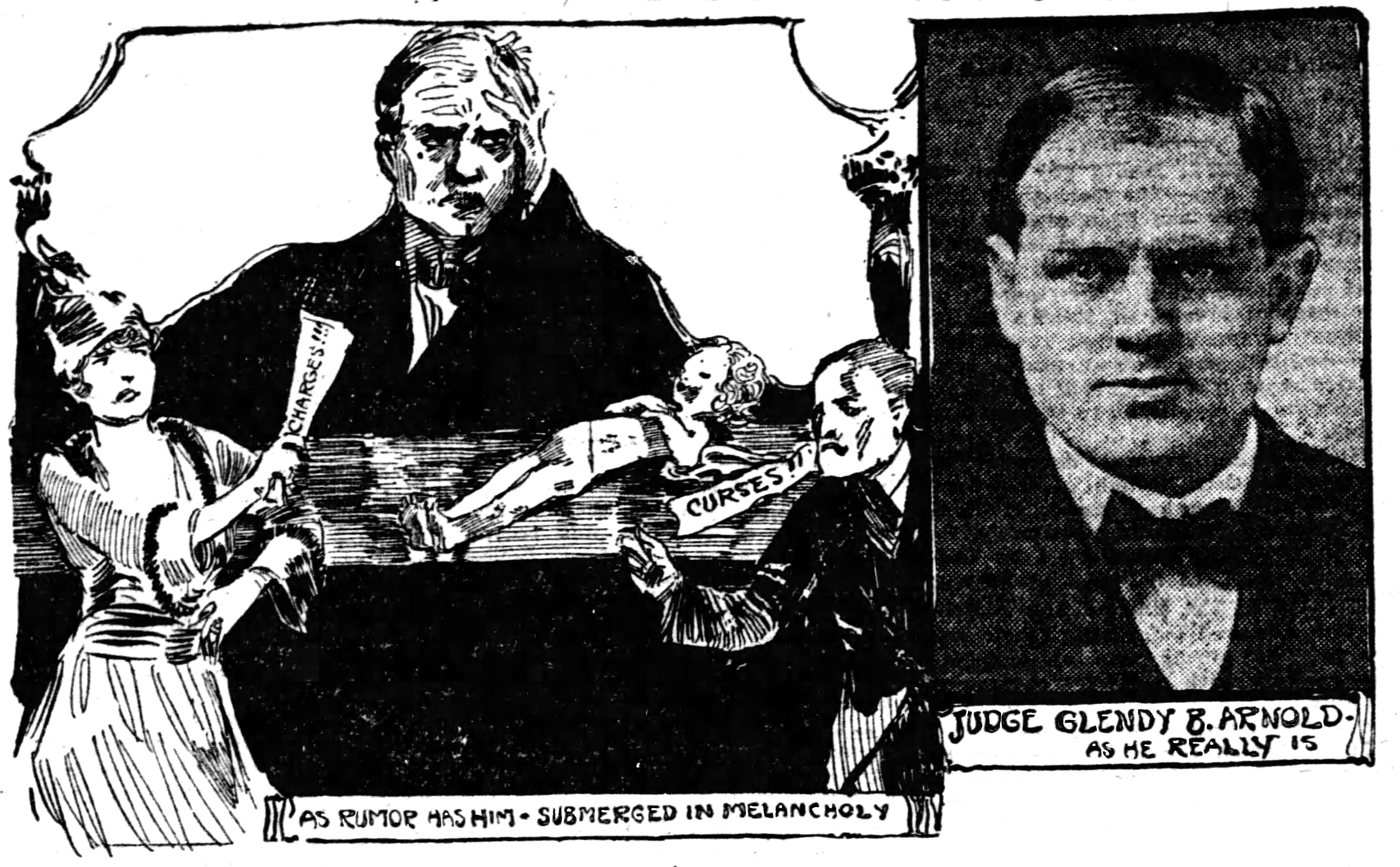 Imaginative 1915 drawing by Marguerite Martyn of St. Louis Judge Glendy B. Arnold in divorce court with litigants on each side and their child lying on its back in front of him. He is holding his head in despair. At right is a photograph of the judge.